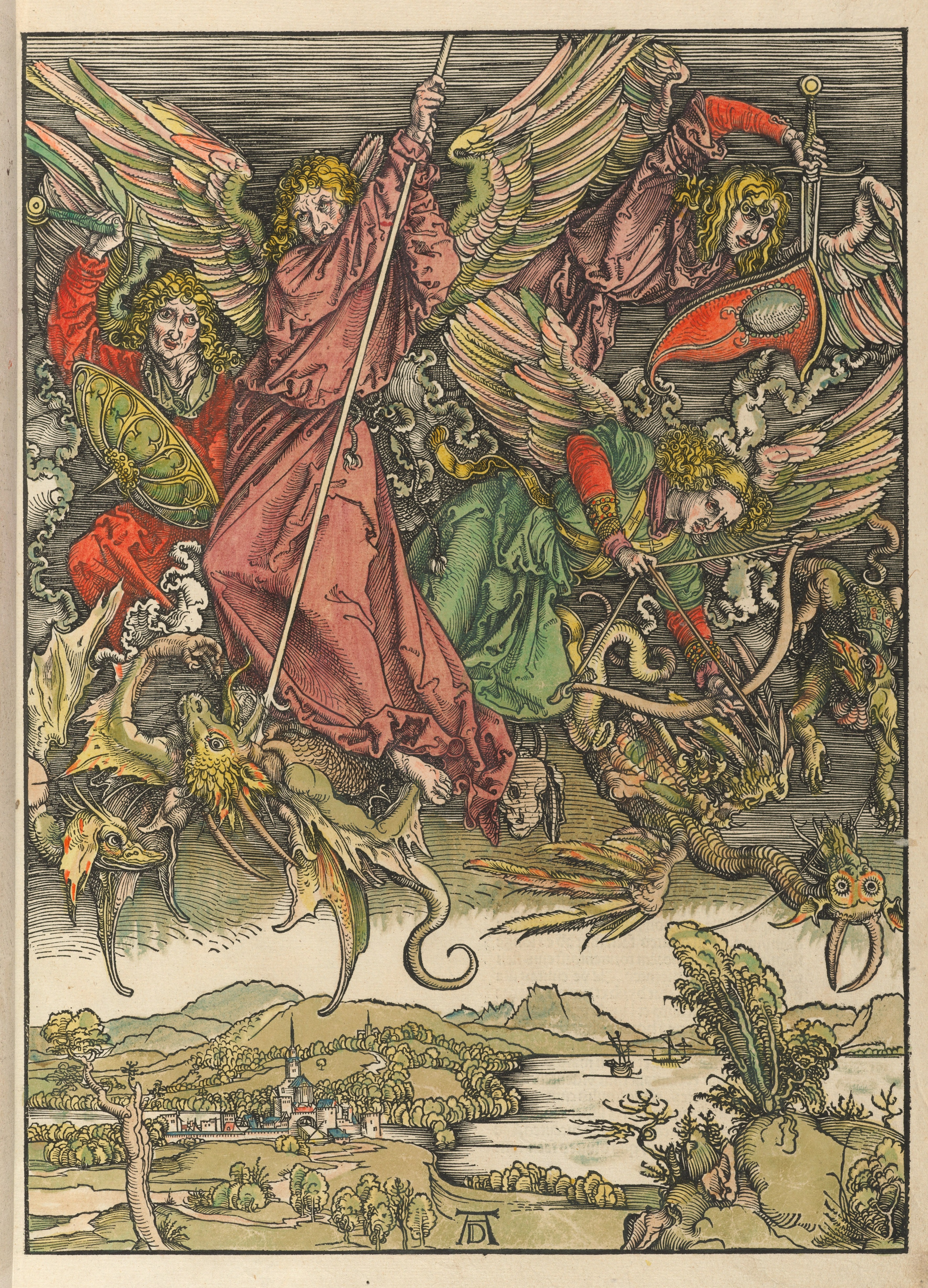 Illustration from Apocalipsis cu[m] figuris, Nuremburg: 1498, by Albrecht Dürer (1471-1528). Typ Inc 2121A, Houghton Library, Harvard University